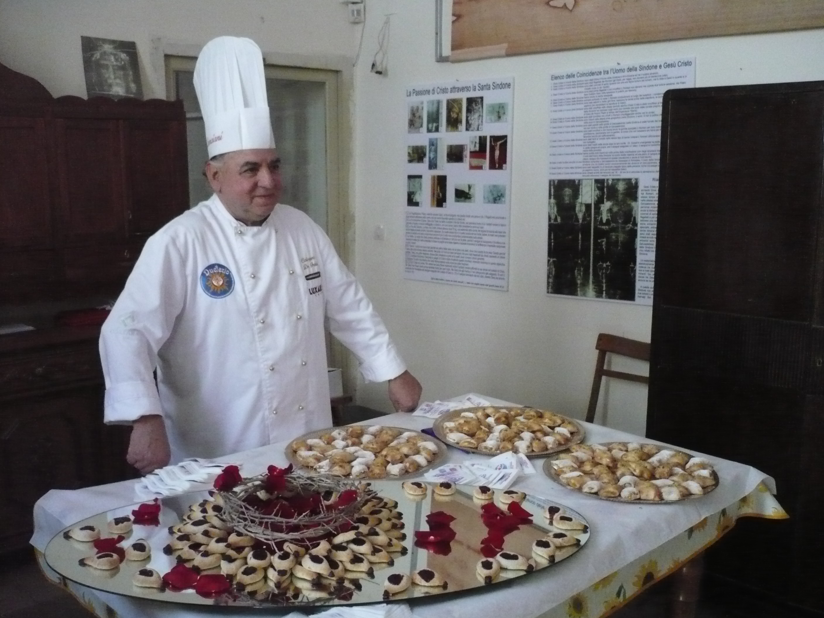 Spina santaand crocette of Caltanissetta, sweet used to be prepared for the Holy Crucifix festivity by the Sisters of the Benedectine Monastery of Caltanissetta